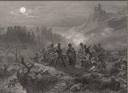 Battle of Dürenstein - Marshal Mortier - Napoleonic Wars - Third Coalition (1805) Paper size: 15.5 x 21.5 cm (6 x 8.4 inches) Image size: 10 x 14 cm (3.9 x 5.5 inches)